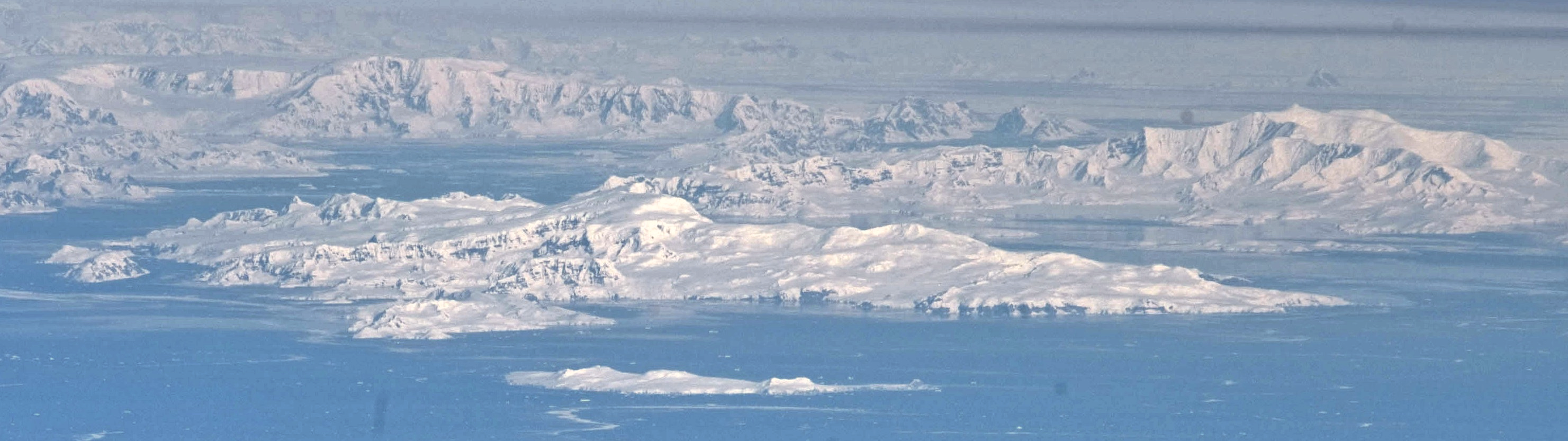 Brabant Island seen from northeast, with Anvers Island (on the right) and Antarctic Peninsula in the background.